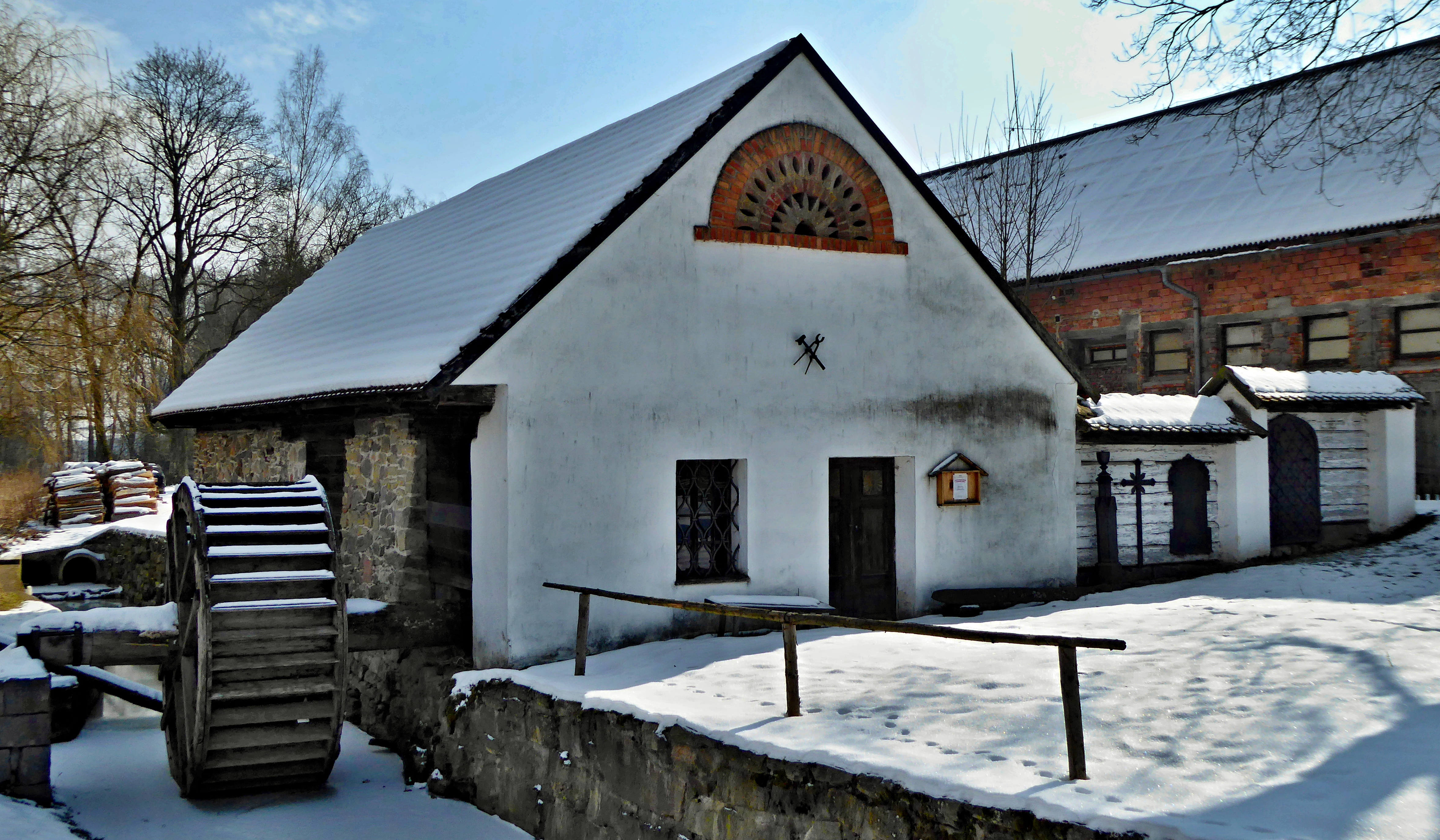 Water hammer and mill restoreds in the 20th century, the hamlet of Svobodné Hamry, the village of Vysočina. A water wheel on the so-called lower water supplied by the Chrudimka river, to the 17th century the river with name Kamenice. In the 15th century an iron hammer was built for the production of iron above the river Kamenice, hence the name of the original settlement Hamr nad Kamenicí, since 1769 with name Svobodné Hamry. The water works worked until the end of the 17th century, then a forging the iron with two water wheels. Since the eighteenth century, they built other water structures, including a mill and a saw, they ceased to exist in the early 20th century. Cultural monument of the hamlet monument zone with name Svobodné Hamry, part of the Open air Museum Vysočina (formerly named Set of Folk Buildings Vysočina). Historical monument in the Iron Mountains, on a green tourist route of the Czech Tourists Club (part: Veselý Kopec - Dřevíkov - Svobodné Hamry). Locality in the Protected Landscape Area Žďár Hills. Photo location: Czechia, Pardubice Region, municipality Vysočina, small hamlet of Svobodné Hamry", Kameničská Highlands. Source of information: Merry Hill (Czech name: Veselý Kopec), official web presentation of the Open air Museum Highland (Czech name: Vysočina) see